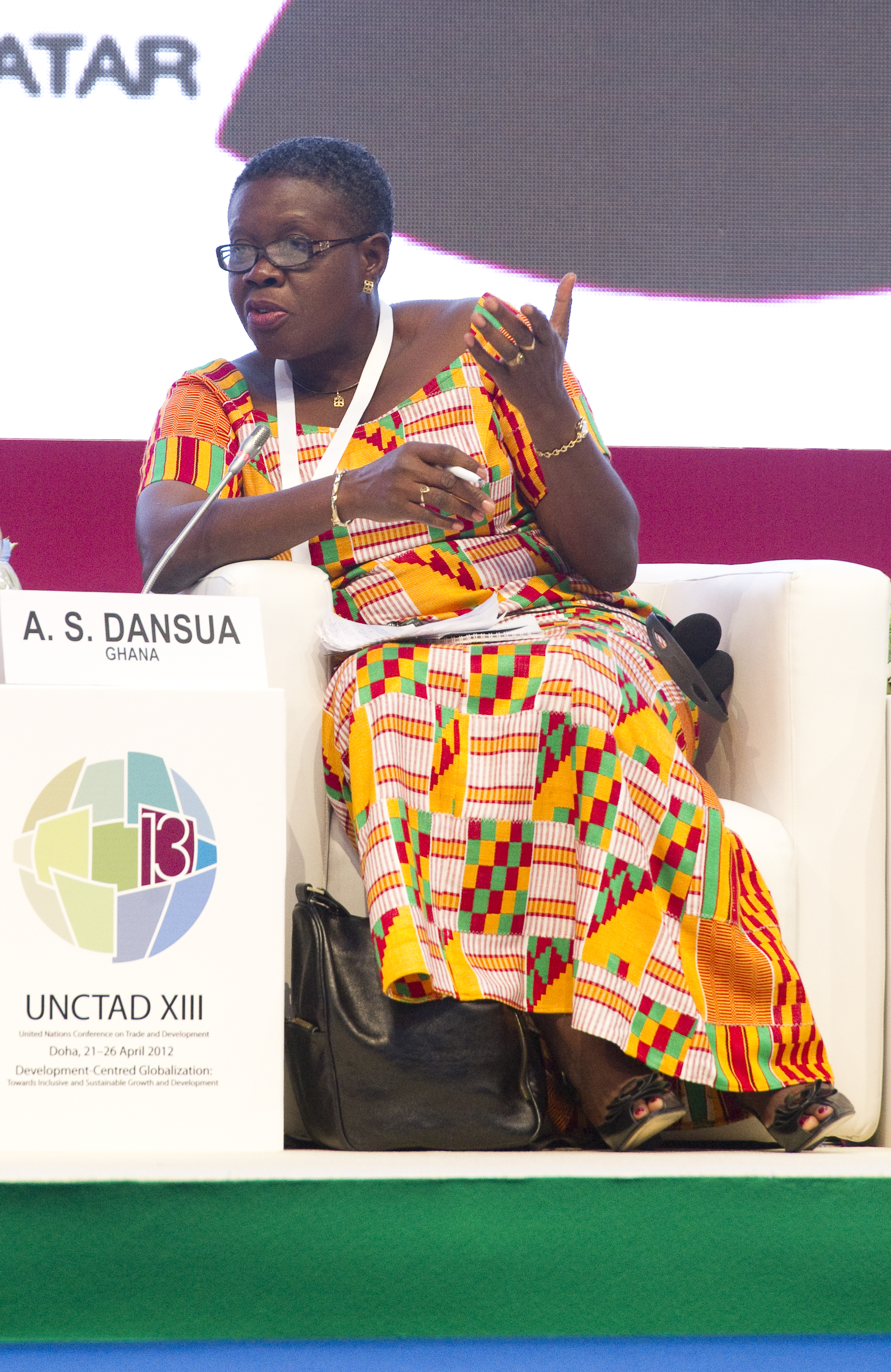 Honourable Akua Sena Dansua, Minister of Tourism of the Republic of Ghana